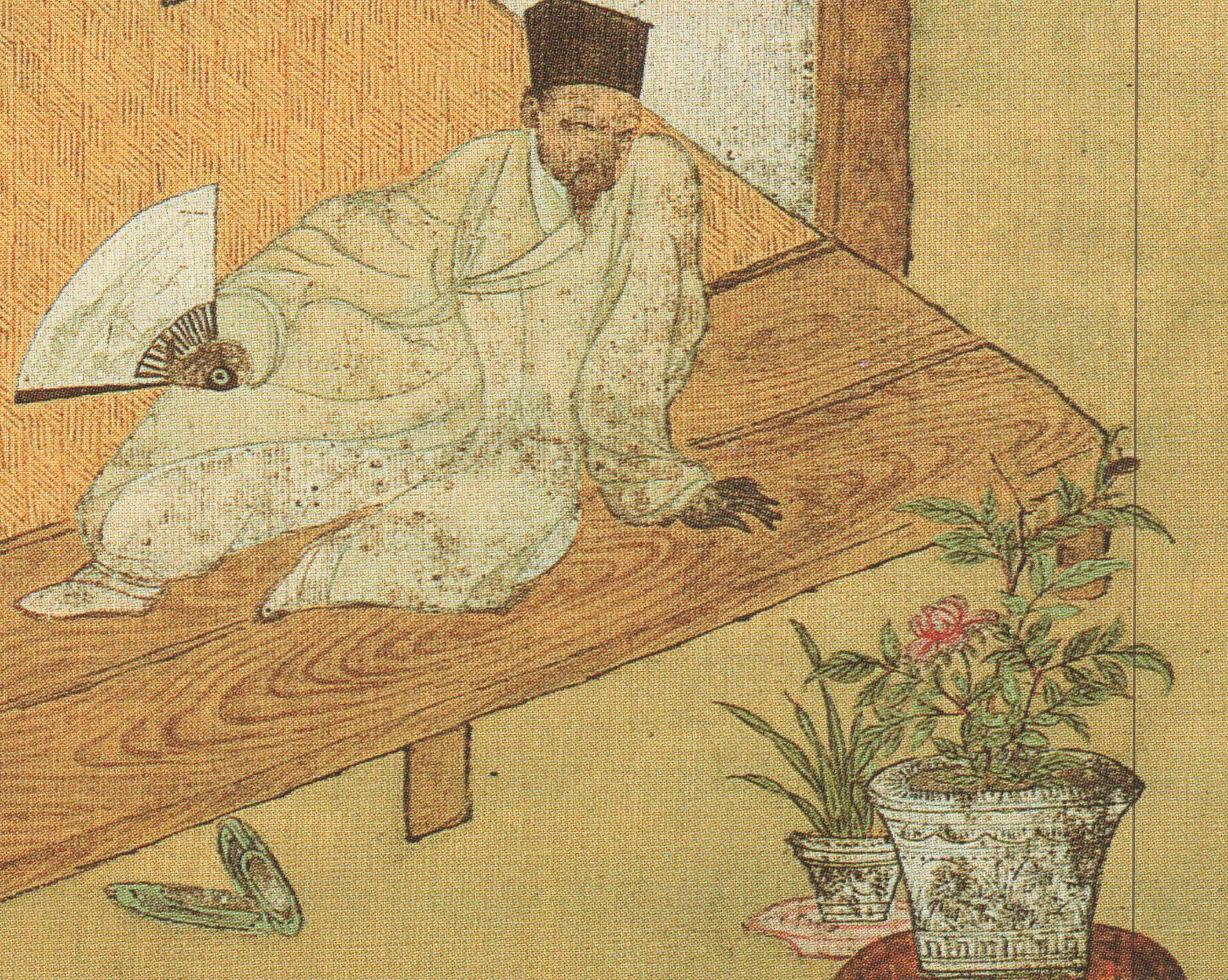 The close-up of the picture tilted "Taking a rest after reading books" is to be a self portrait of the painter Jeong Seon.